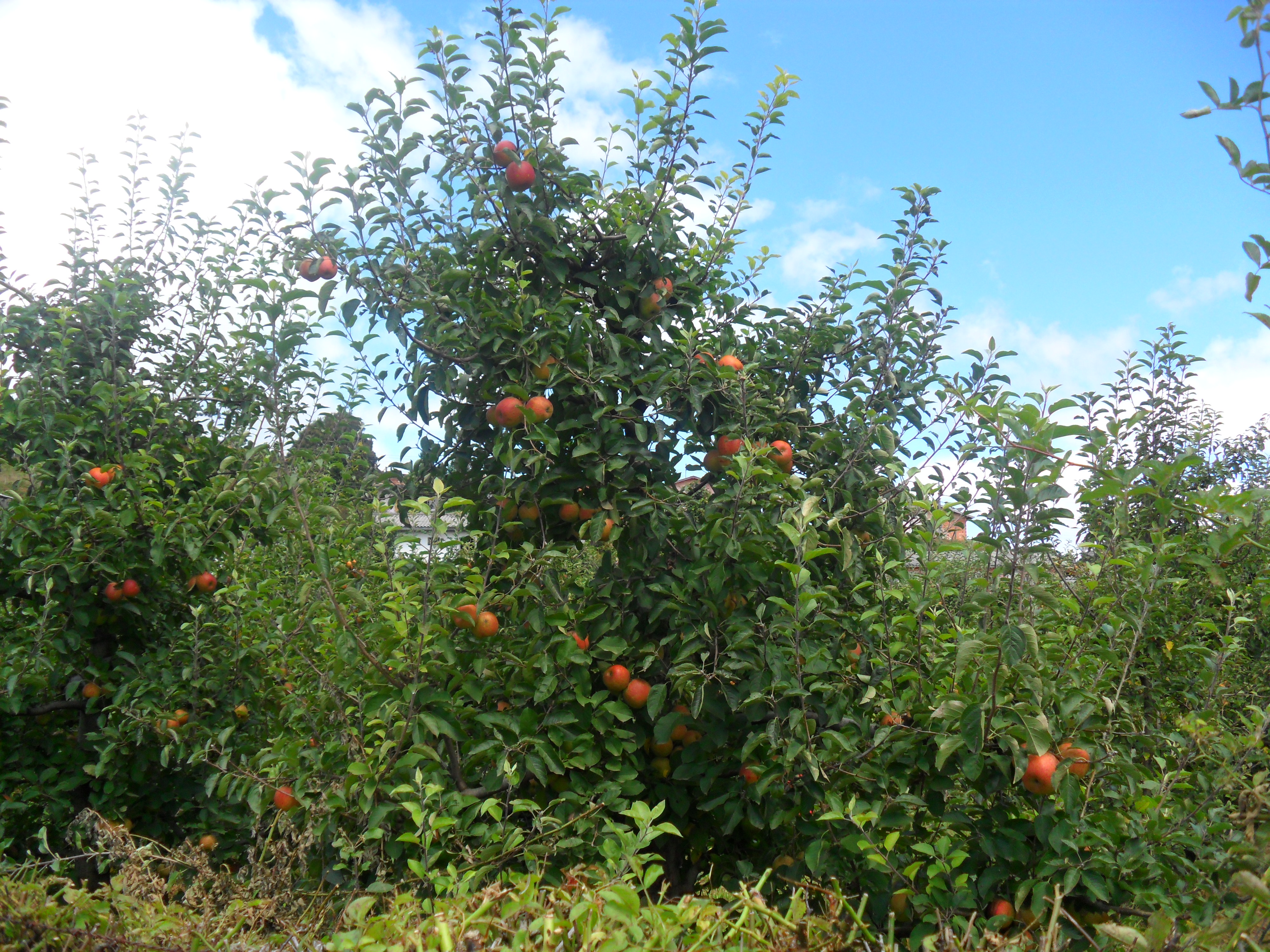 Apple Trees01